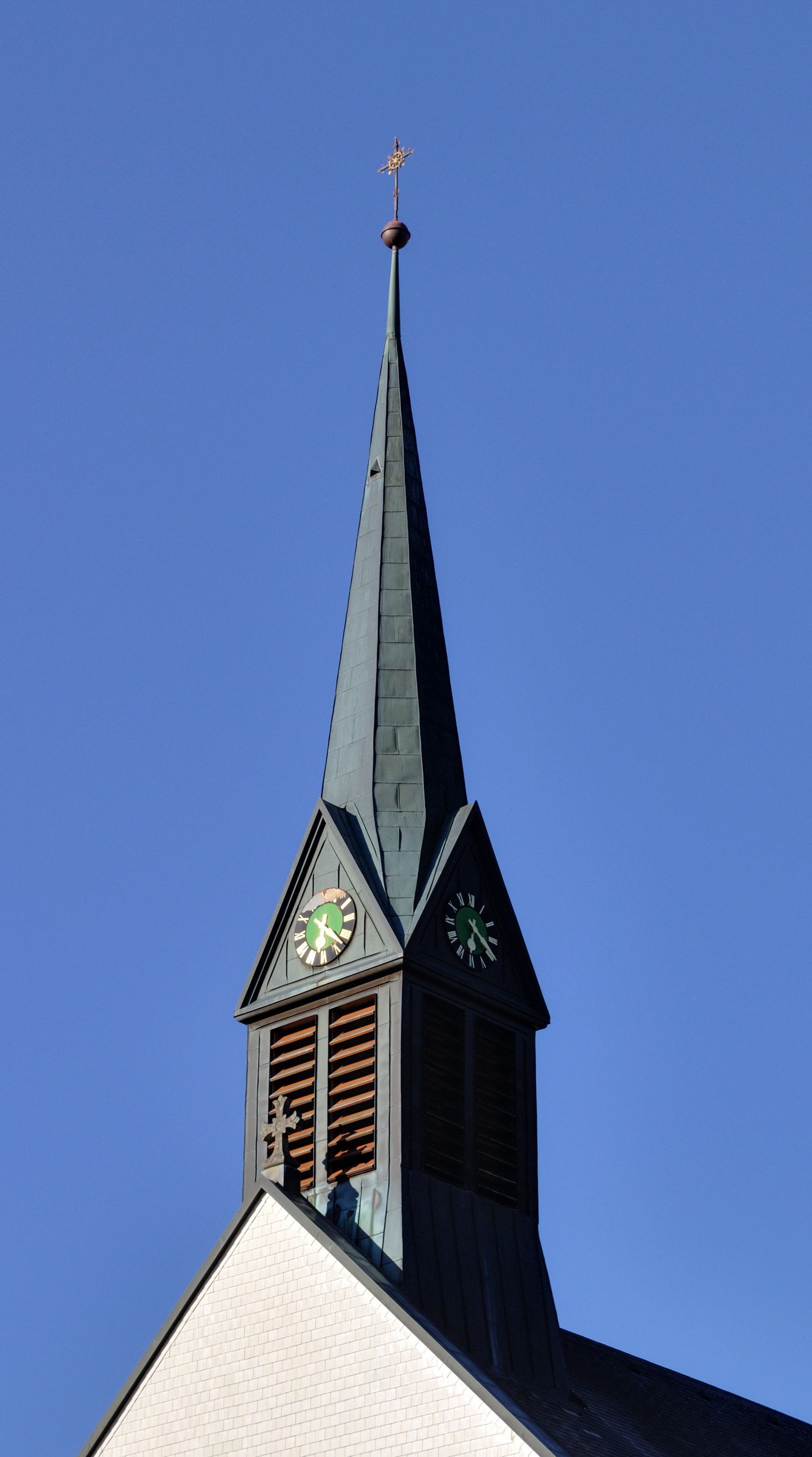 Häg: Saint Michaels Church